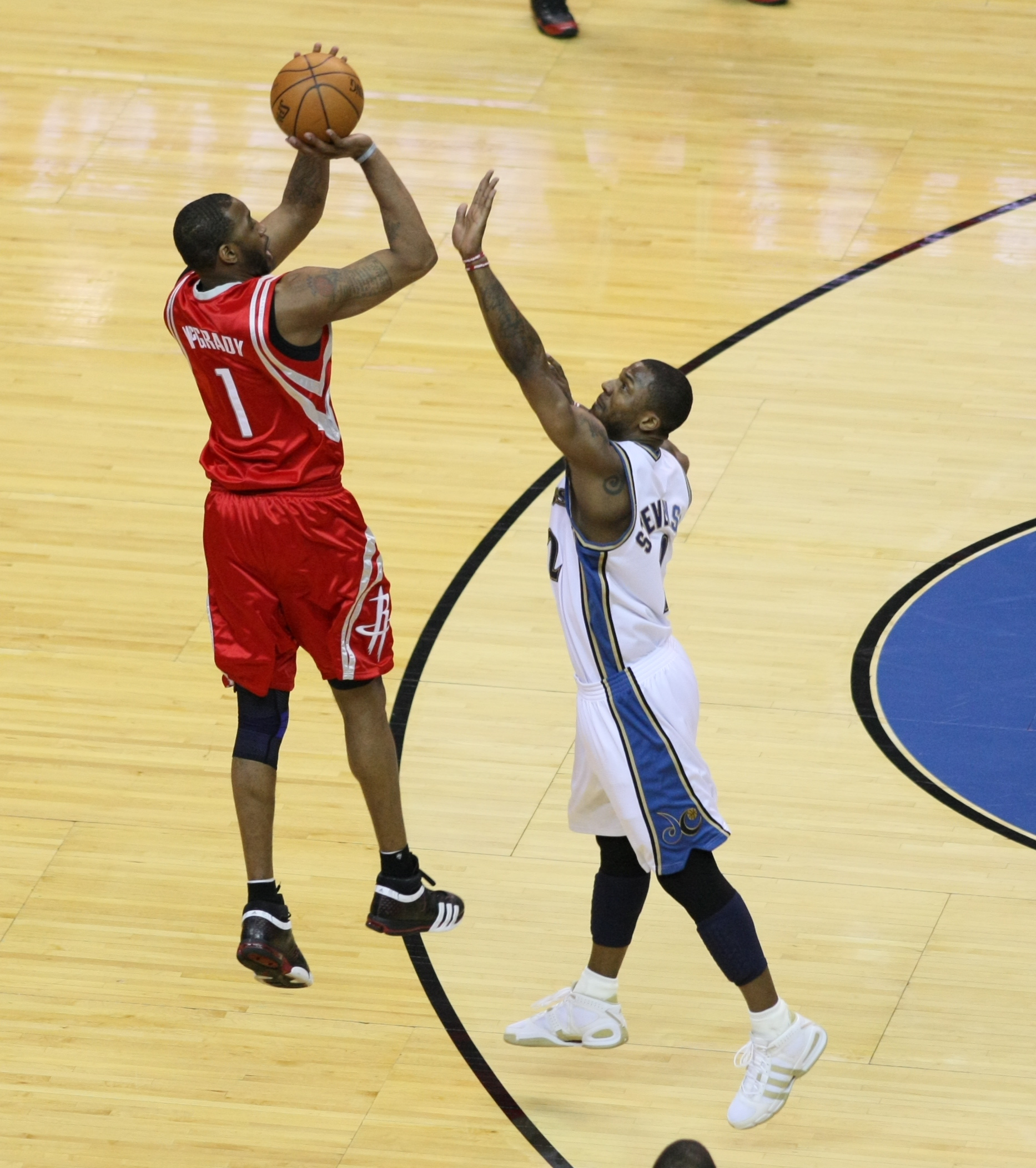 Tracy McGrady of the Houston Rockets shoots over Wizards guard Deshawn Stevenson